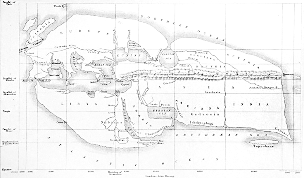 Edited variant of File:Mappa di Eratostene.jpg; description there: Mappa di Eratostene, da en.wiki